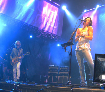 Peter Stroud on stage with Sarah McLachlan